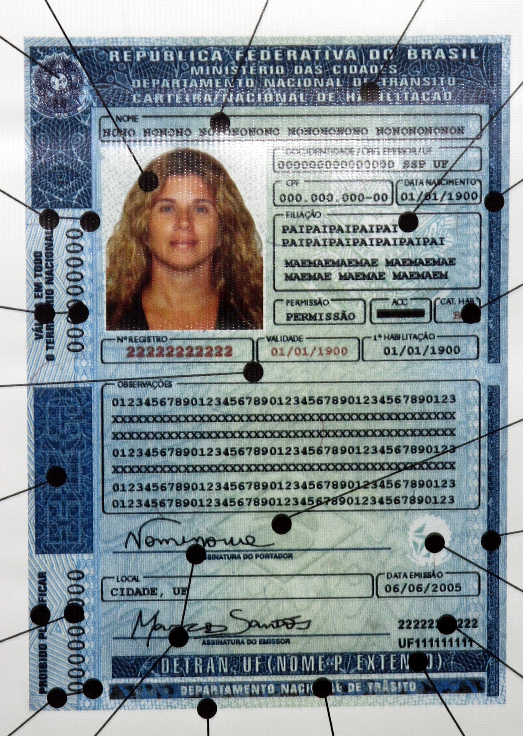 New model of the Brazilian Driver's License (CNH), in force from mid-2006.